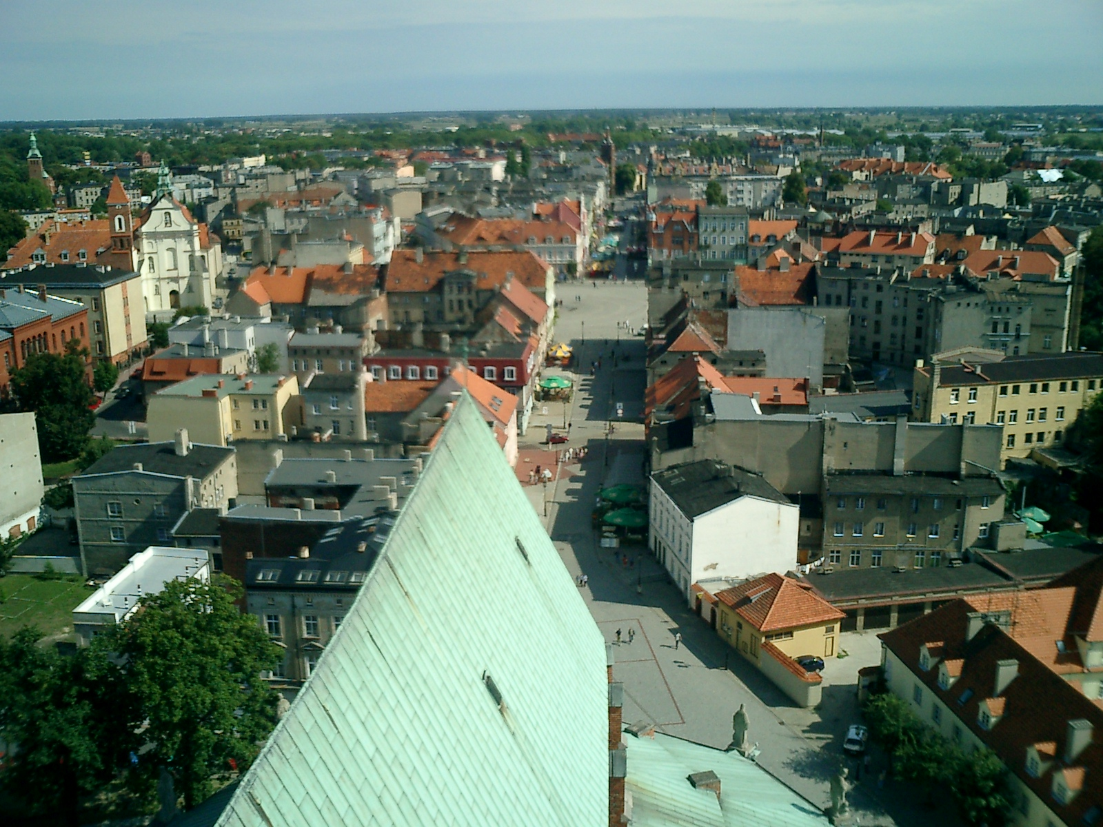 Gniezno, Poland